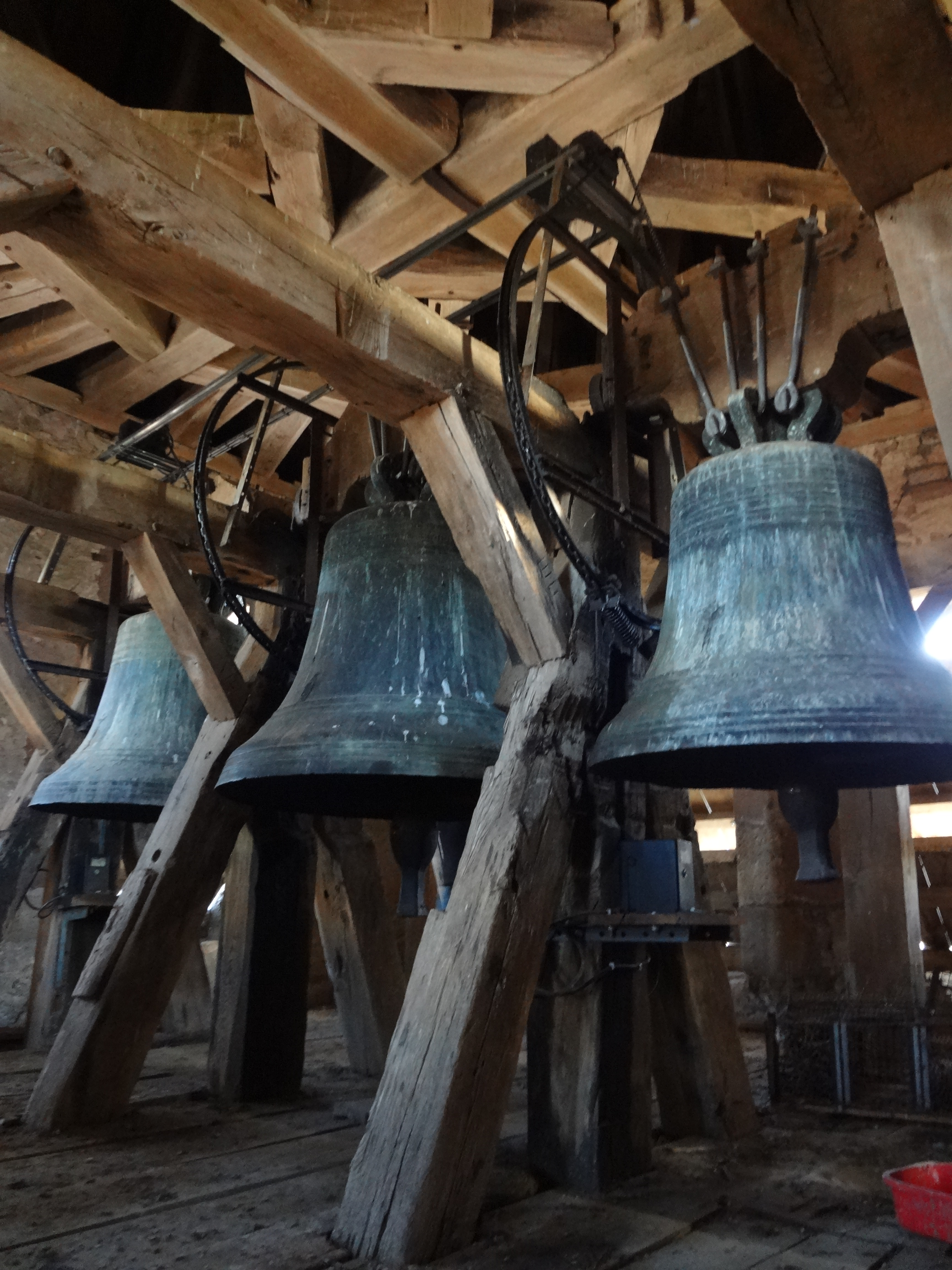 Destord church's bells